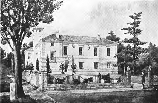 An external drawing of a building by the architectural firm Cram and Ferguson of Boston, Massachusetts from a 1920 proposal for the Currier Art Gallery in Manchester, New Hampshire.